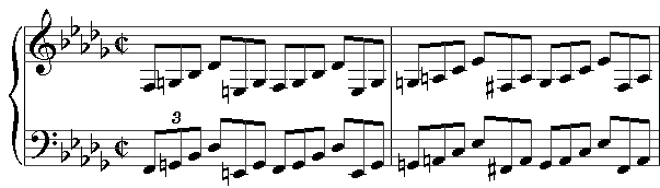 Example of perpetuum mobile: the opening of the finale of Frederic Chopin's Piano Sonata No. 2. The music is in the public domain, the image was made with Sibelius and the GIMP.